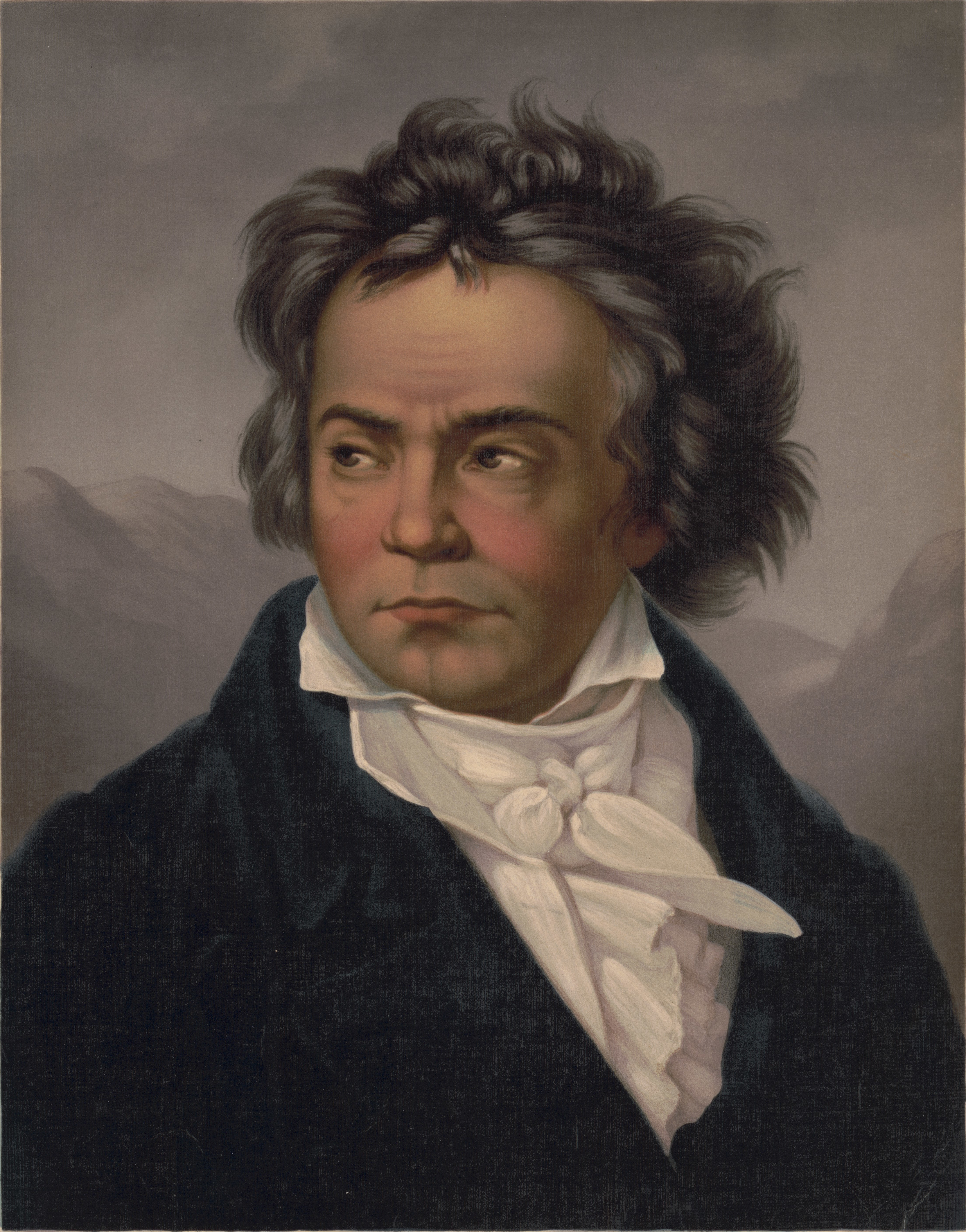 Title: Ludwig Van Beethoven Physical description: 1 print. Notes: This record contains unverified data from PGA shelflist card.; Associated name on shelflist card: Prang, L. & Co.